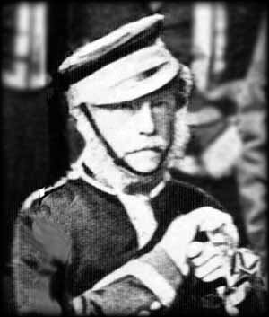 Pictured above in 1861 as Lt.Col. Commandant in the Prince Albert's Own Leicestershire Yeomanry Cavalry.